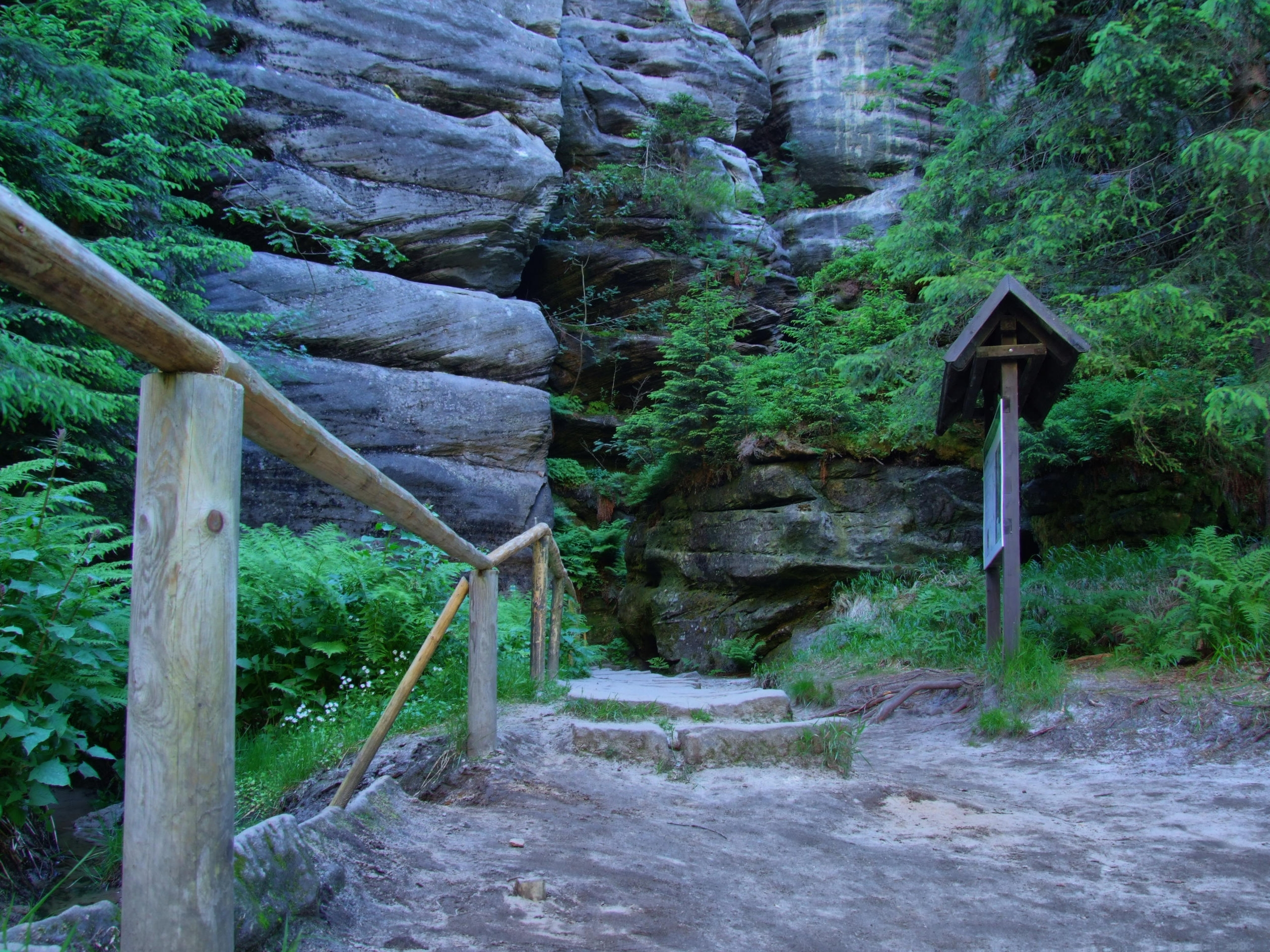 Teplické skalní město (Wekelsdorfer Felsen)